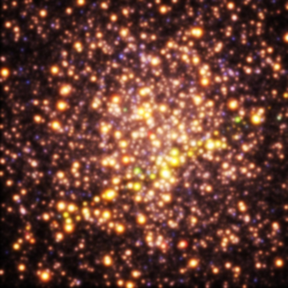 A simulated three colour image of the globular cluster NGC 2808, created by Sebastian Kamann.